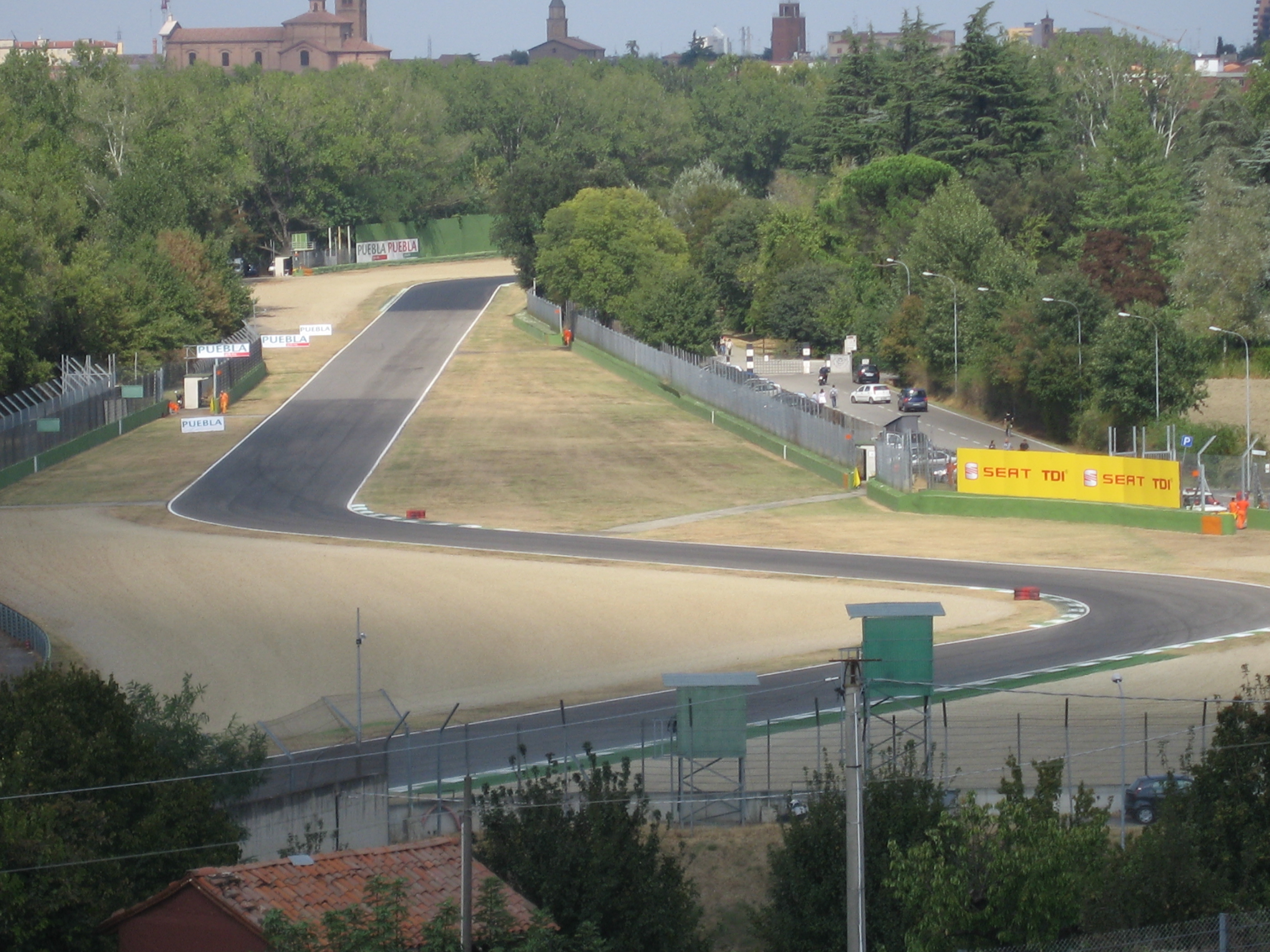 Dino ed Enzo Ferrari Circuit in Imola, Italy